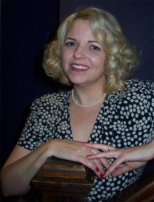 Image of Tricia Cast, taken during a production of Born Yesterday that she appeared in (as Billy).